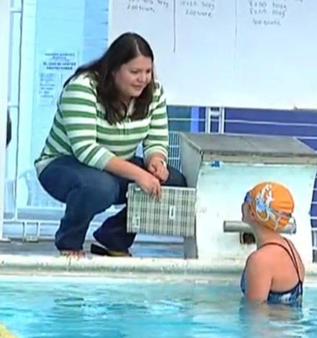 Karin Slowking and Valerie Gruest both Olympic swimmers of Guatemala - clipped from a cc by sa video Fernando Valdes